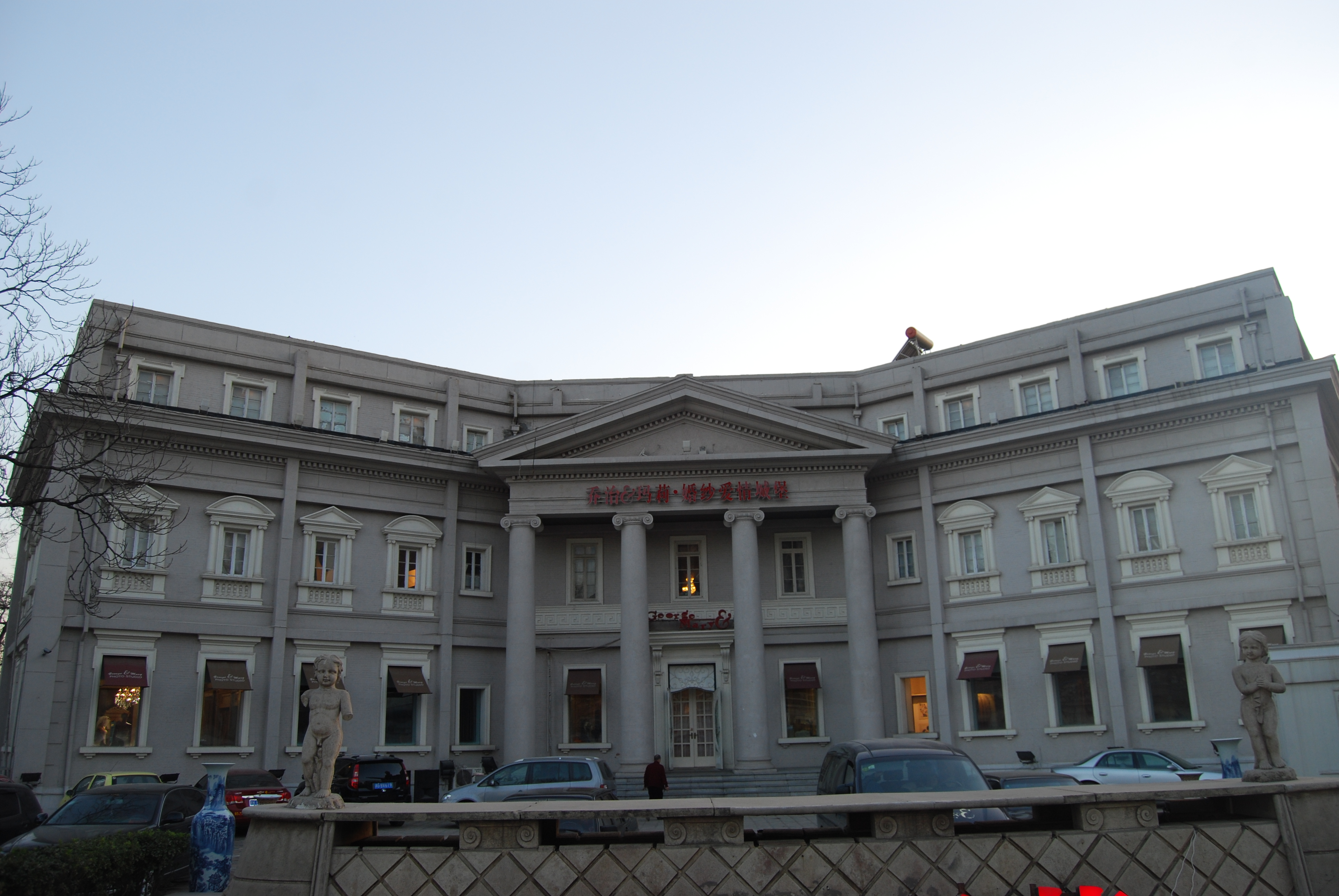 Former Office Building of Jiuda Company, TianJin